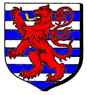 Stratford (Type B) Coat of Arms 4: Barry of ten argent and azure, a lion rampant gules langued or